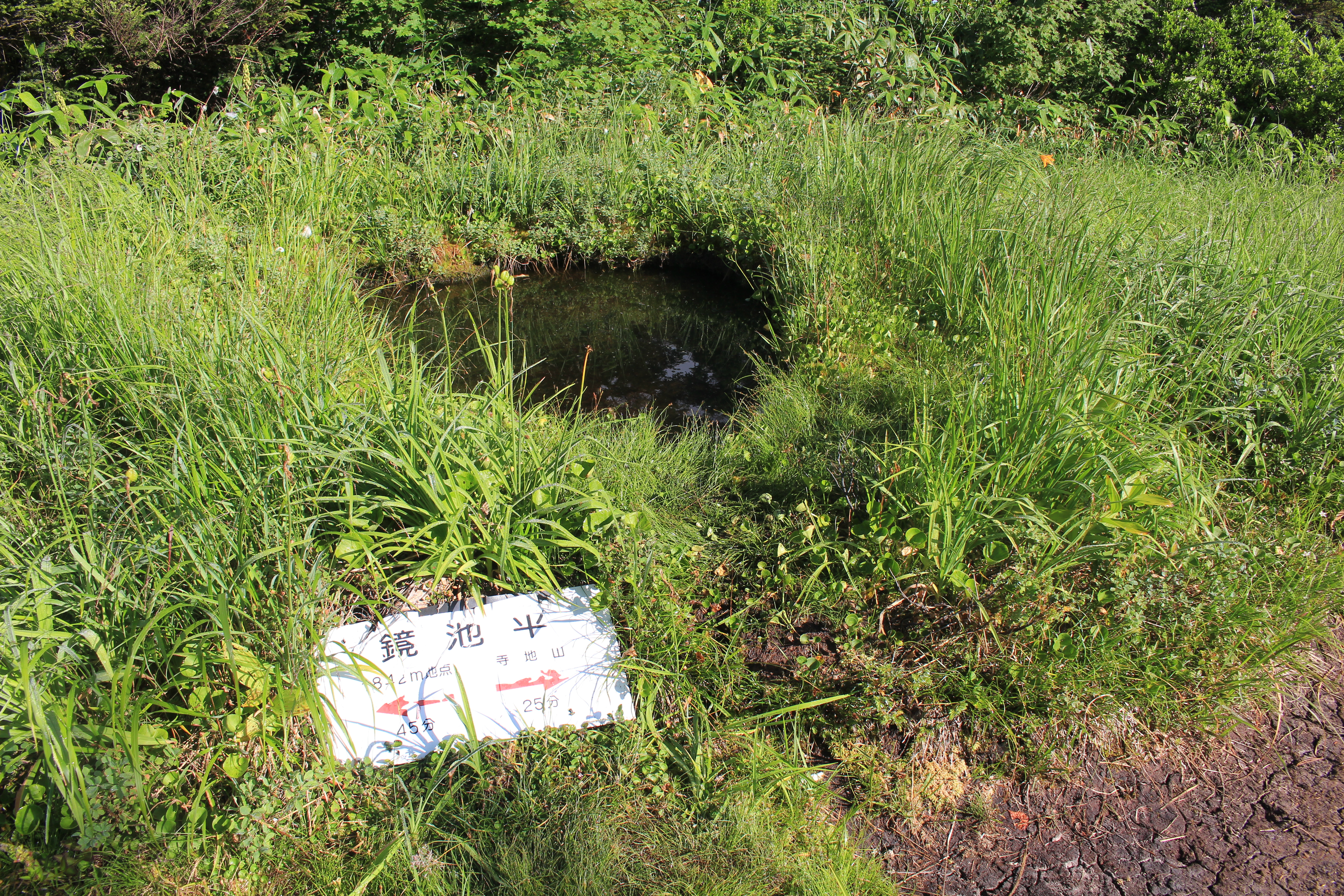 Kagami Pond in Mount Teraji, Tateyama Mountains of Hida Mountains, Hida, Gifu prefecture, Japan.